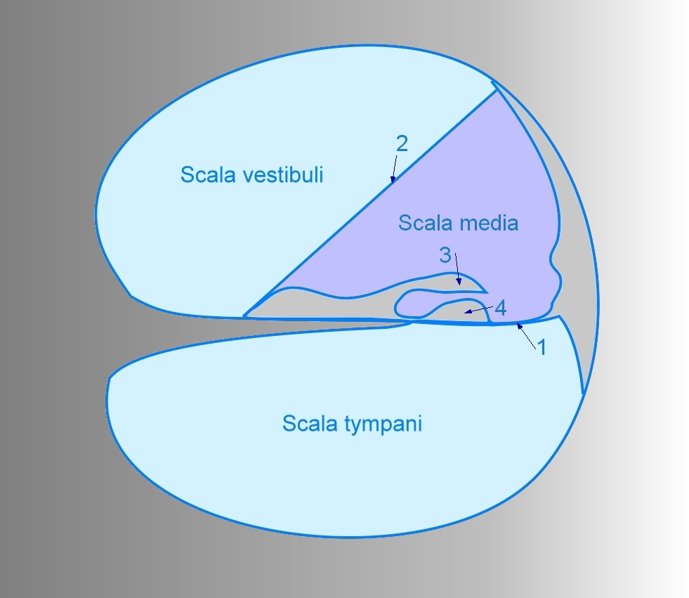 Ductus cochlearis (Scala media), Scheme of Cochlea 1. Basilair membrane, 2: Reissner's membrane, 3: Tectorial membrane, 4: Organ of Corti